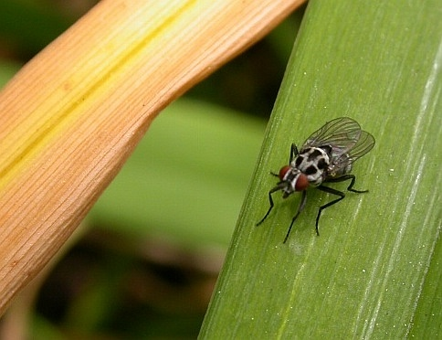 Anthomyia pluvialis, Gradignan, Gironde, France (jardin)